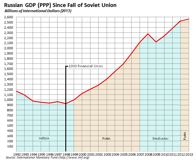 Russian economy since fall of the Soviet Union (2008 international dollars)